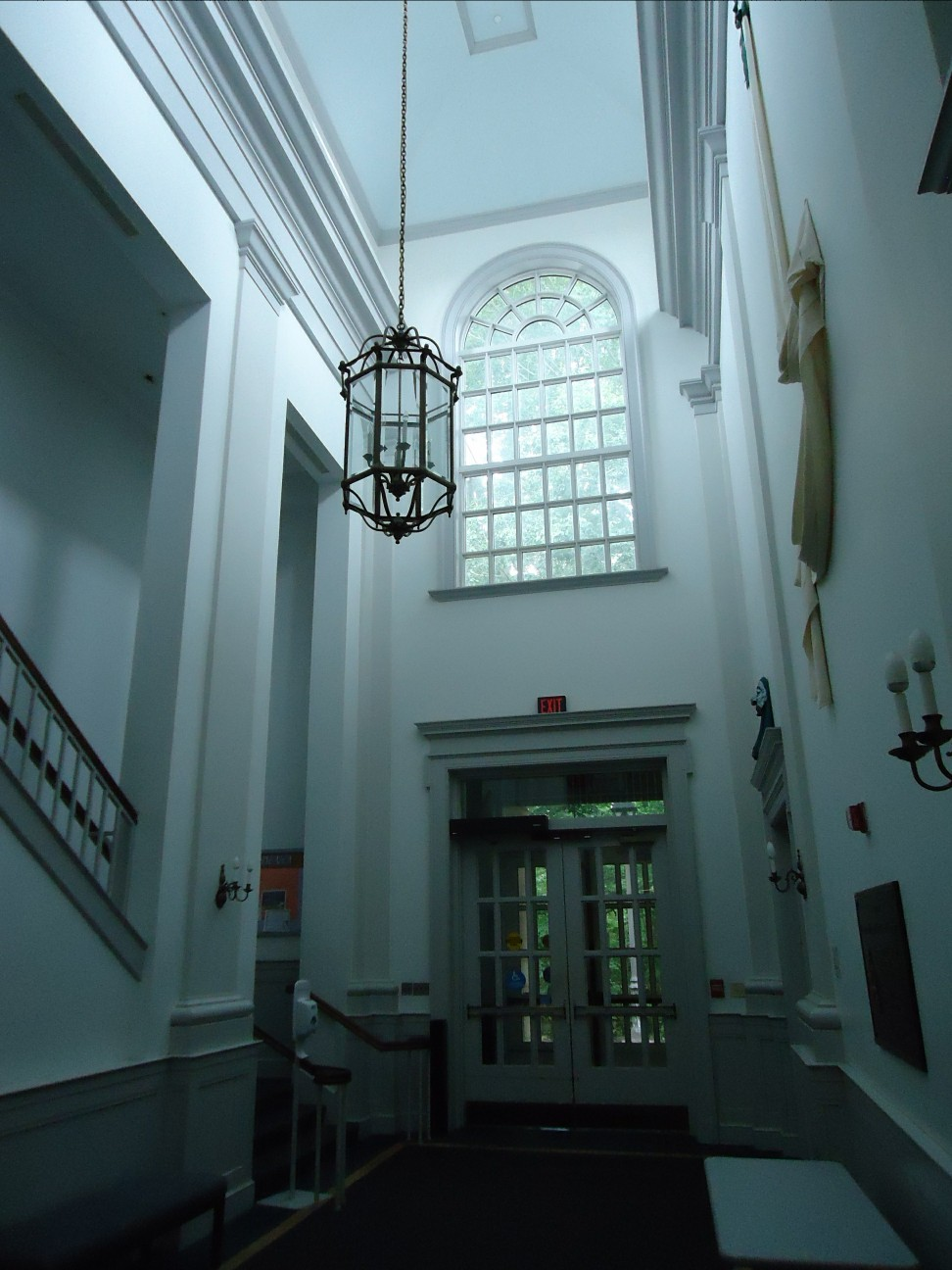 Campus view of The College of New Jersey or TCNJ, in Ewing, New Jersey.